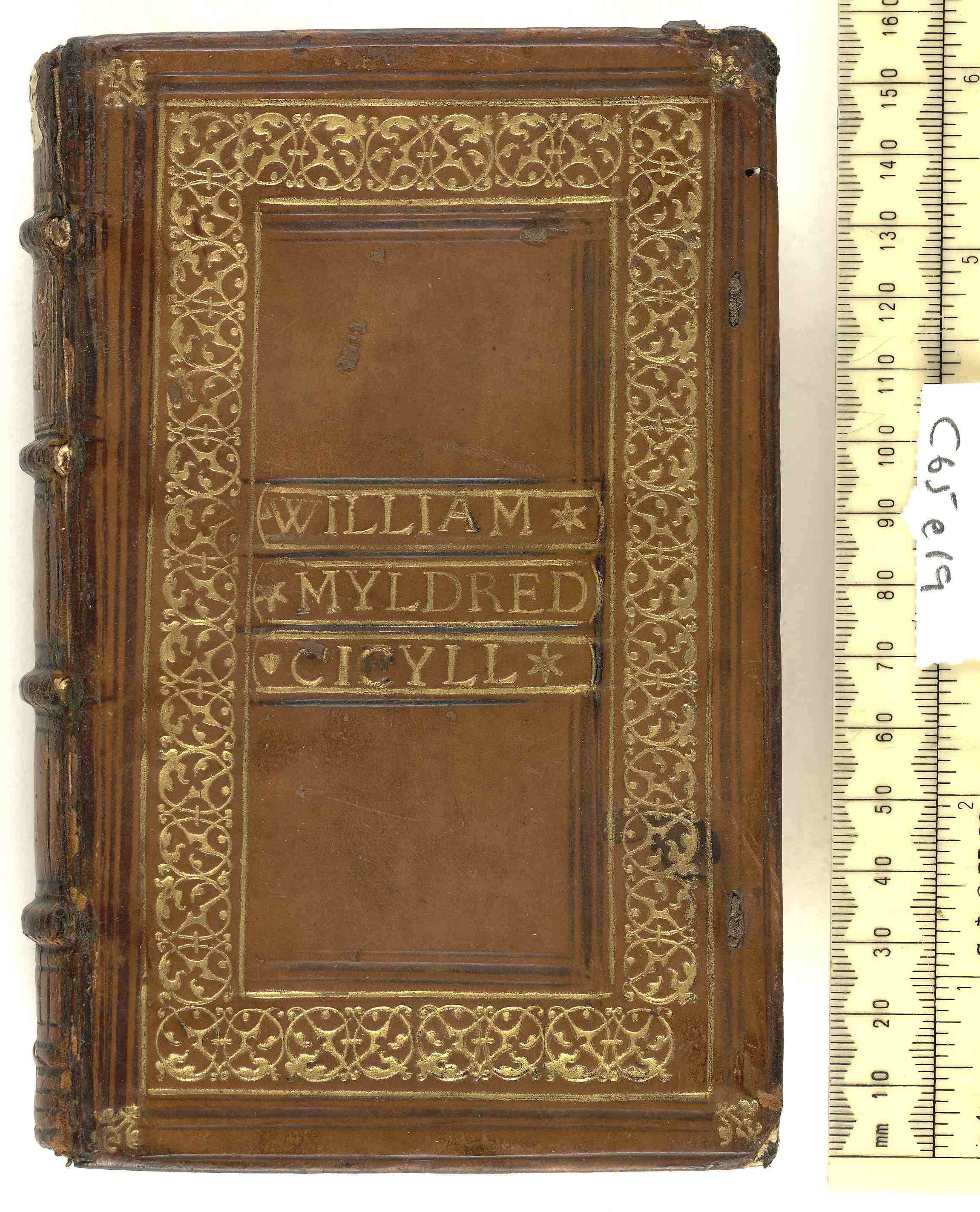 Style: Frame|Lettered cover, eg intitals, titles; Caption: Upper cover; Colour: Tan; Edge: Unspecified